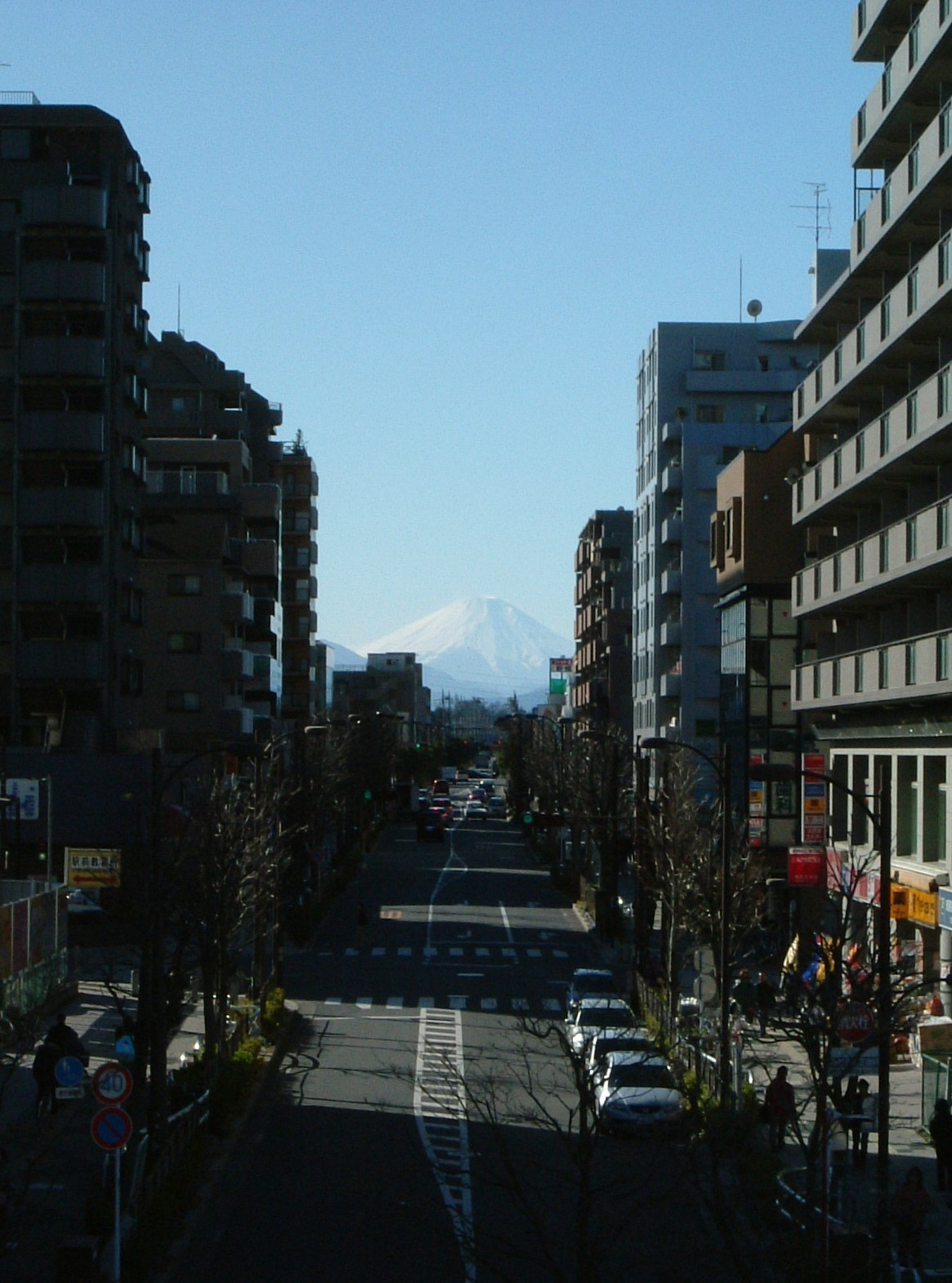 富士山。Mt. Fuji seen from Higashikurume city Japan 200612.